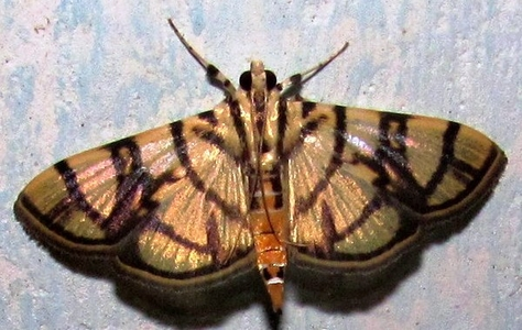 Syllepte gastralis